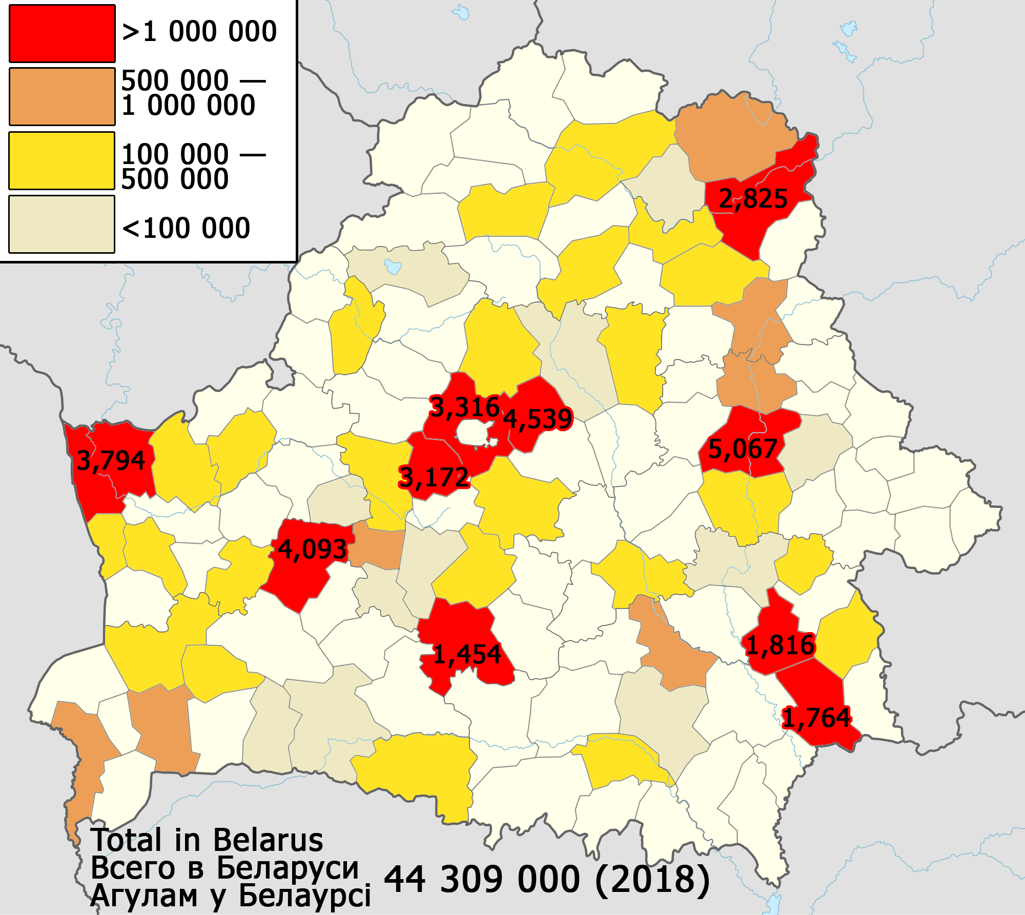 Number of poultry in the collective farms ("agricultural organizations", not to be confused with both organized and unorganized individual farms) in Belarus, 2018